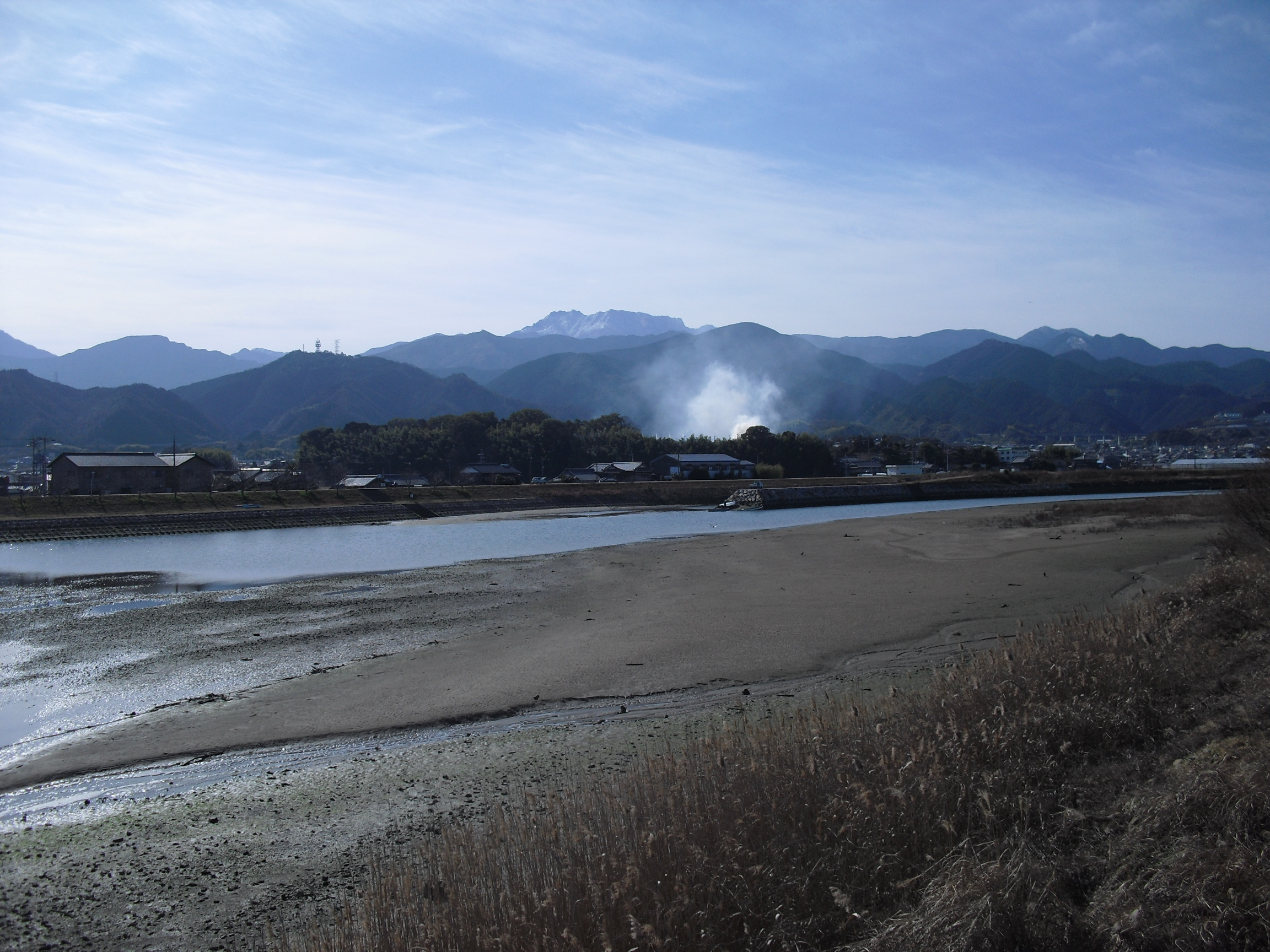 Nakayama River and Ishizuchi Mountains in Saijo, Ehime Prefecture.